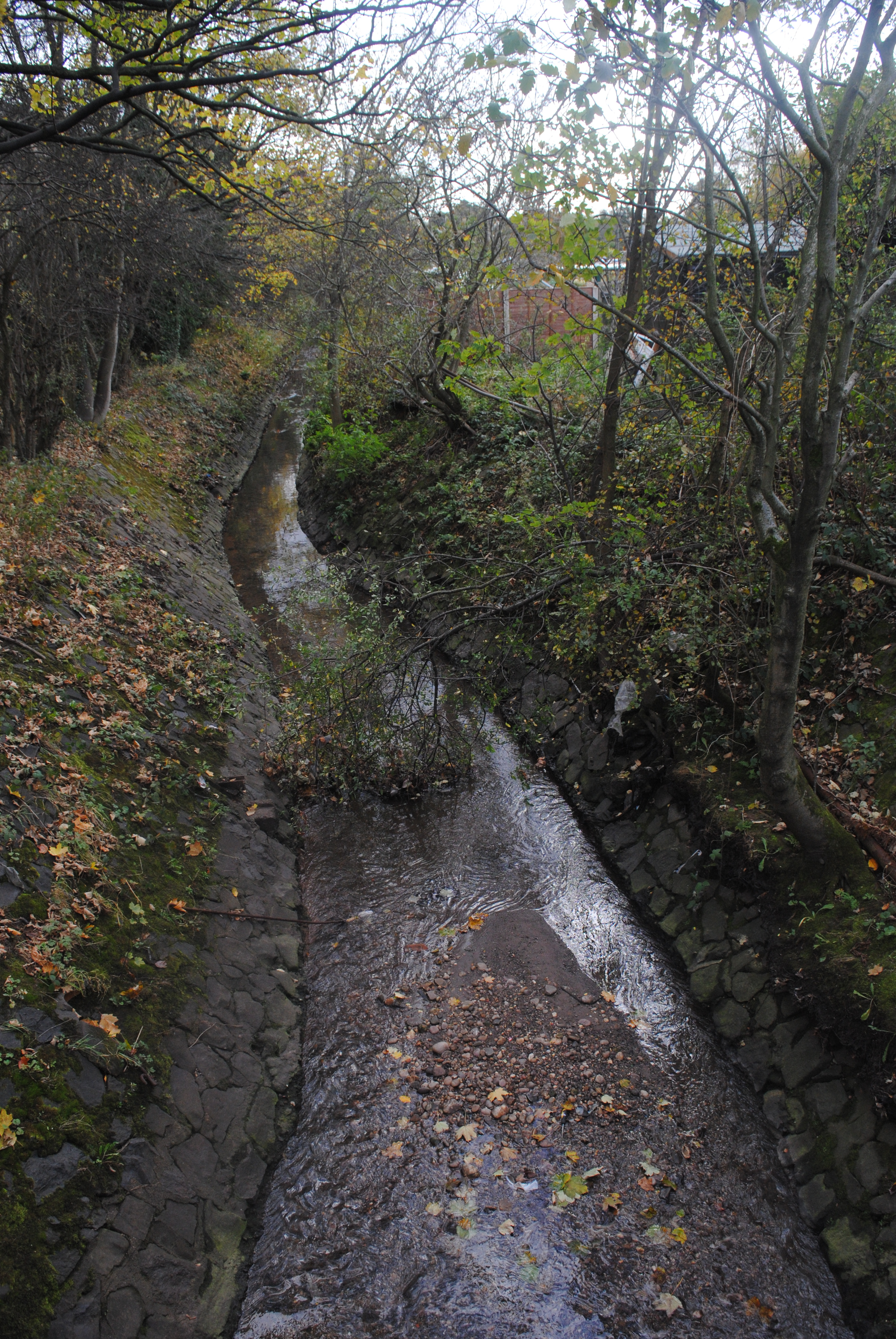 Holbrook at Beeches Road, Birmingham, where it emerges from a brick-bottomed culvert. The direction of flow is away from the camera. To the left is the M6 motorway, on a viaduct running from Juntion 7 (behind the camera) to Junction 6; to the right are Thornbridge Lane allotments.